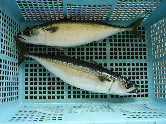 Scomber japonicus 松輪サバ (Matsuwasaba)